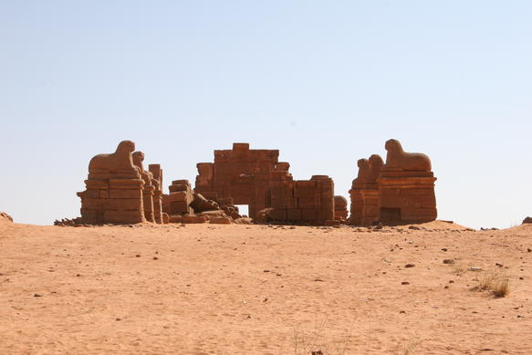 Amun temple of Naqa